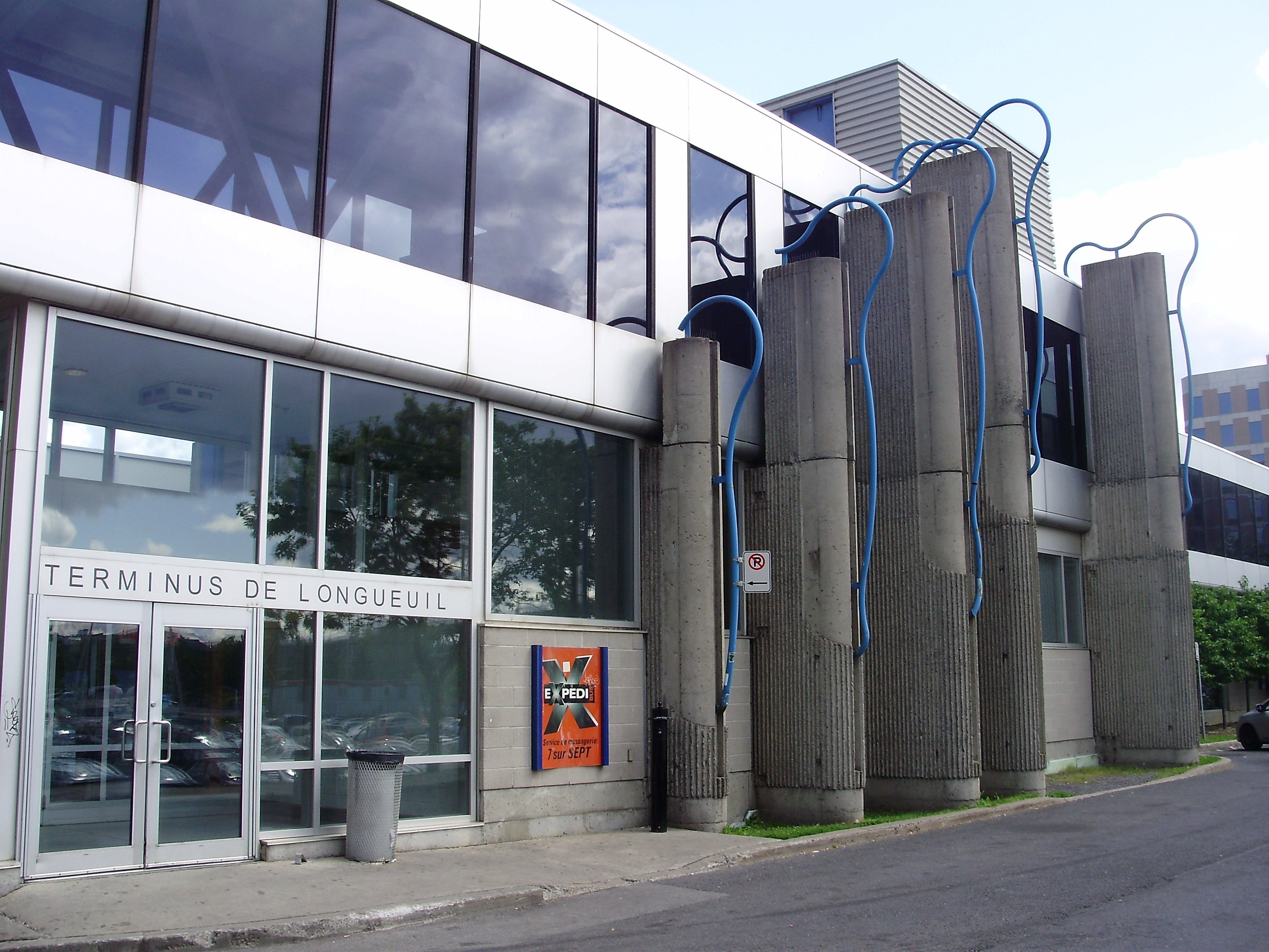 The exterior of Terminus de Longueuil, an Agence métropolitaine de transport and Réseau de transport de Longueuil bus terminal in Longueuil, Quebec, Canada.